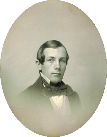 Addison Brown (February 21, 1830 – April 9, 1913)